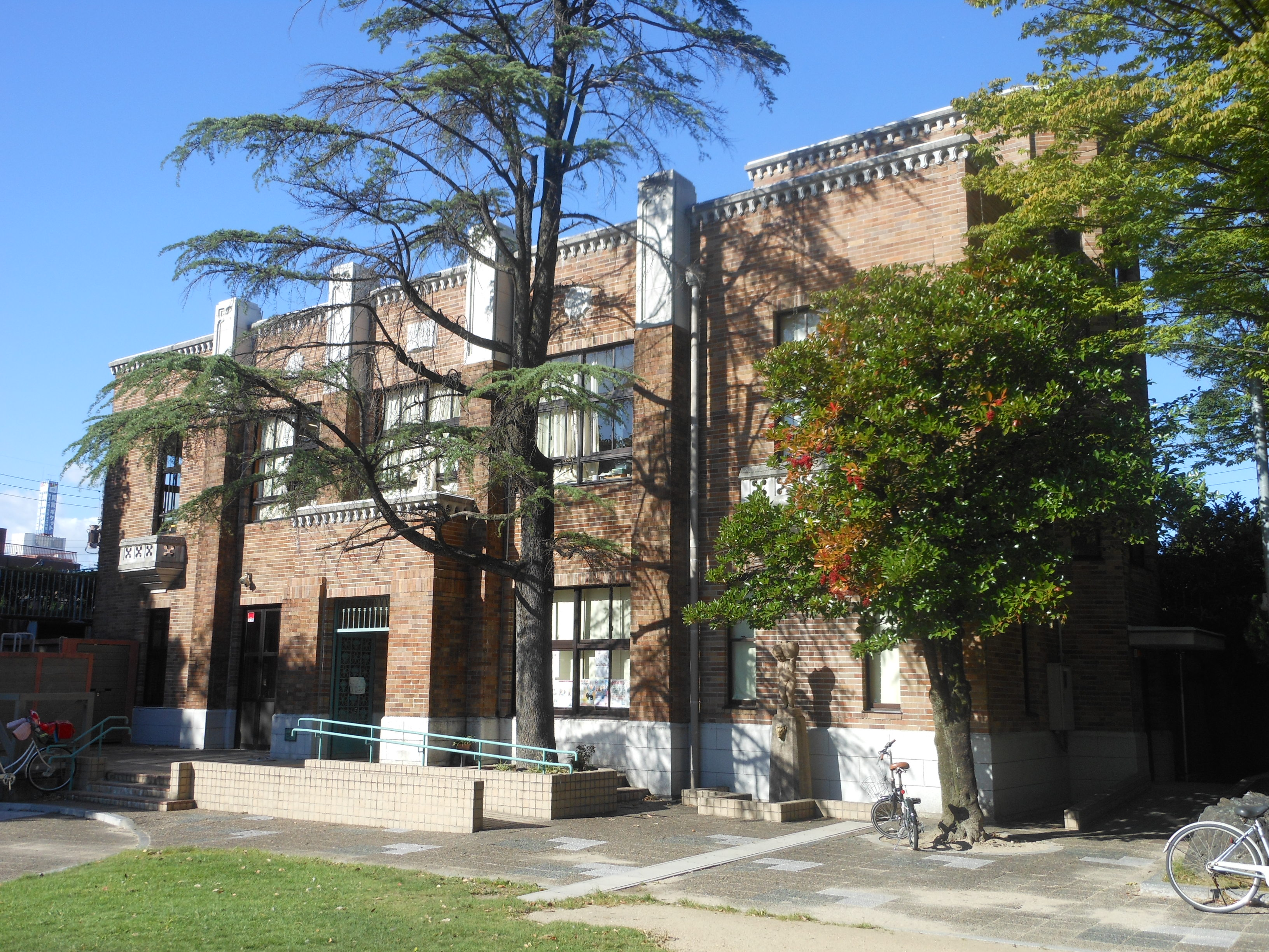 This is Suwa koen koryu kan or Suwa park exchange hall, which is located in Yokkaichi, Mie, Japan. It was used for Yokkaichi municipal library.